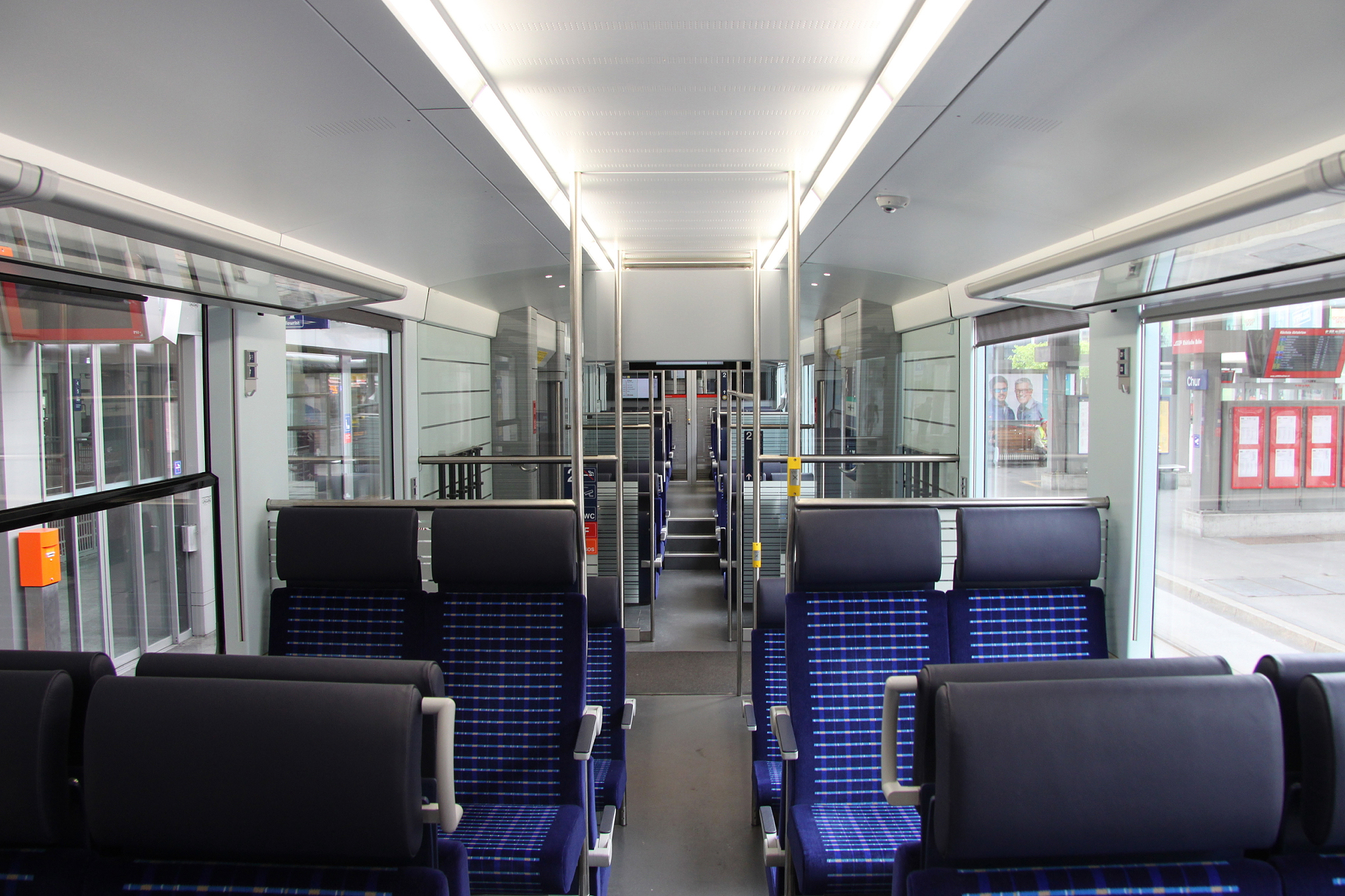 Second class interior of RhB ABe 4/16 3105.